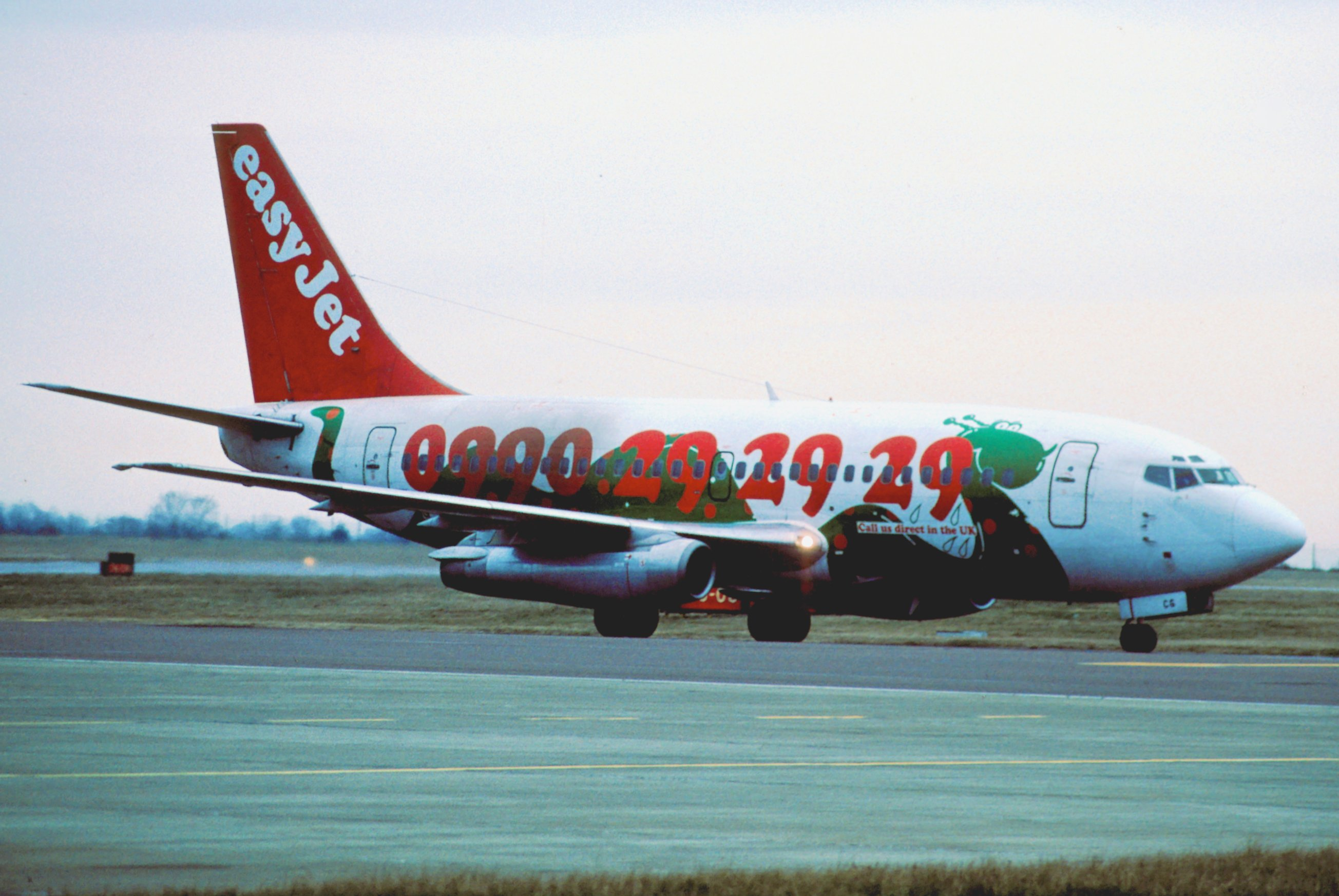 This Boeing 737-204 took its first flight on March 31, 1977...(c/n 21335/ 487) 13/04/1977 Britannia Airways G-BECG 14/02/1994 GB Leisure G-BECG 01/11/1994 COPA Airlines G-BECG 28/04/1995 GB Leisure G-BECG 10/11/1995 EasyJet G-BECG 01/05/1997 Virgin Express G-BECG 30/12/1997 FSB N102TR 20/02/1998 LAPA LV-PNO 01/11/1998 LAPA LV-YXB 01/12/2003 Southern Winds LV-YXB lsd from Triton - Stored at AEP since 04/03, missing engines, APU and other parts. To be RTS later this year - scrapped 08/2005 @ AEP